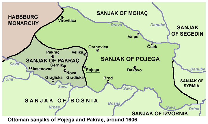 Ottoman sanjaks of Pojega (Požega) and Pakraç (Pakrac), around 1606.